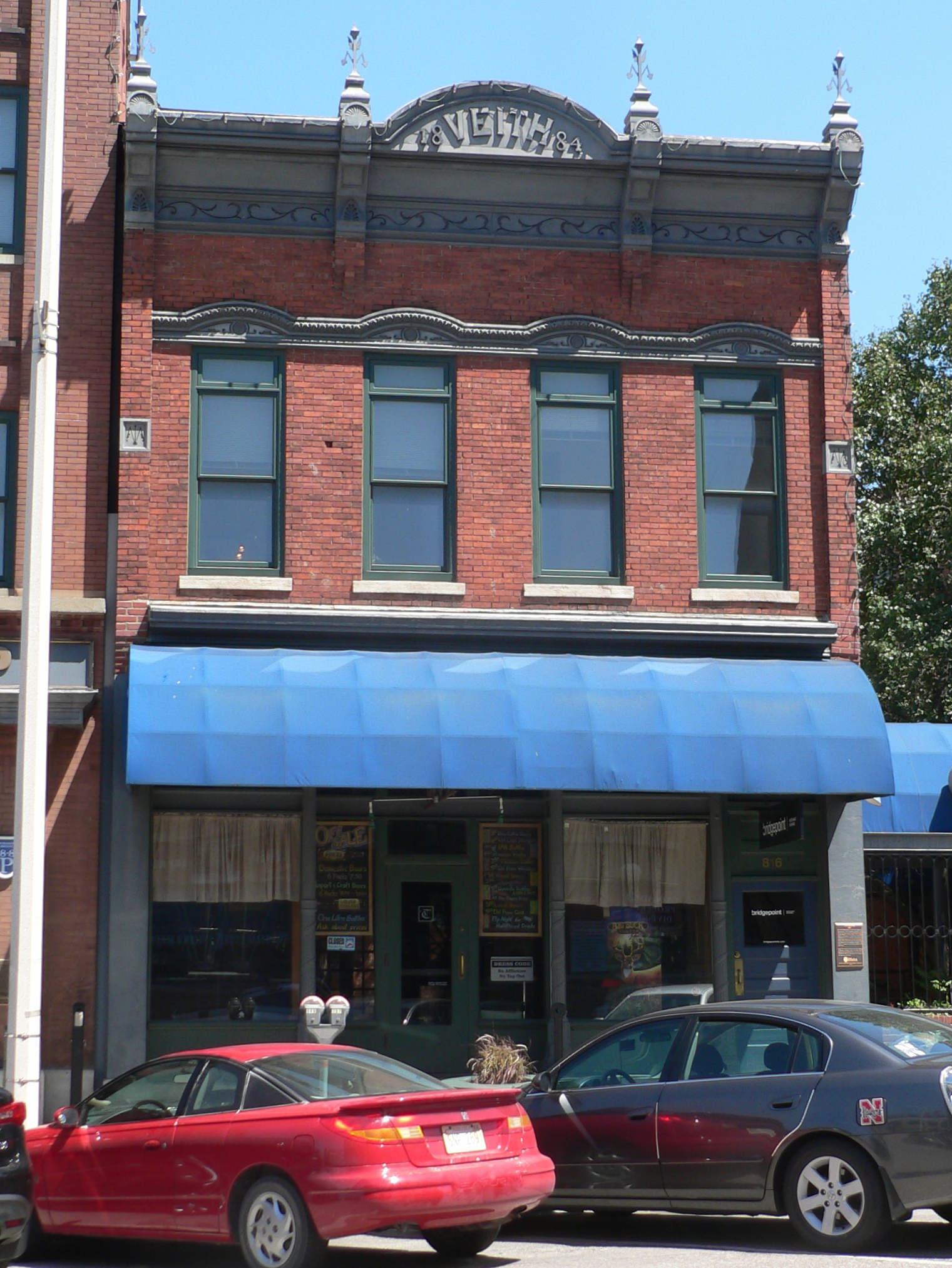 Veith building, located at 816 P Street in the Haymarket District of Lincoln, Nebraska; seen from the south.